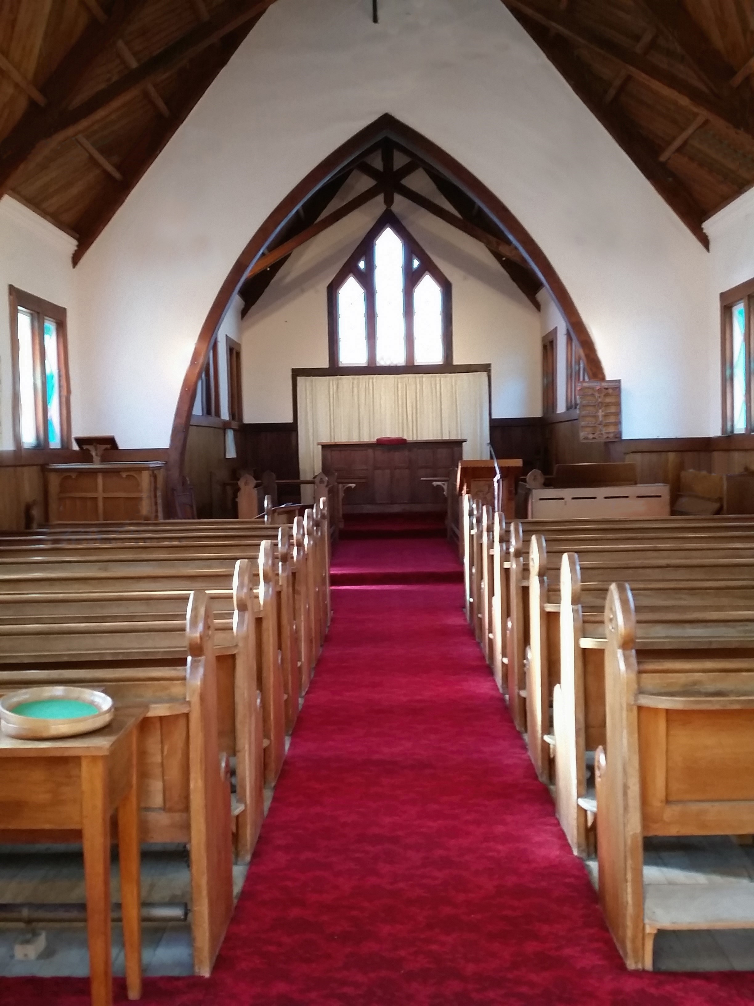 Inside of St Mary's Church